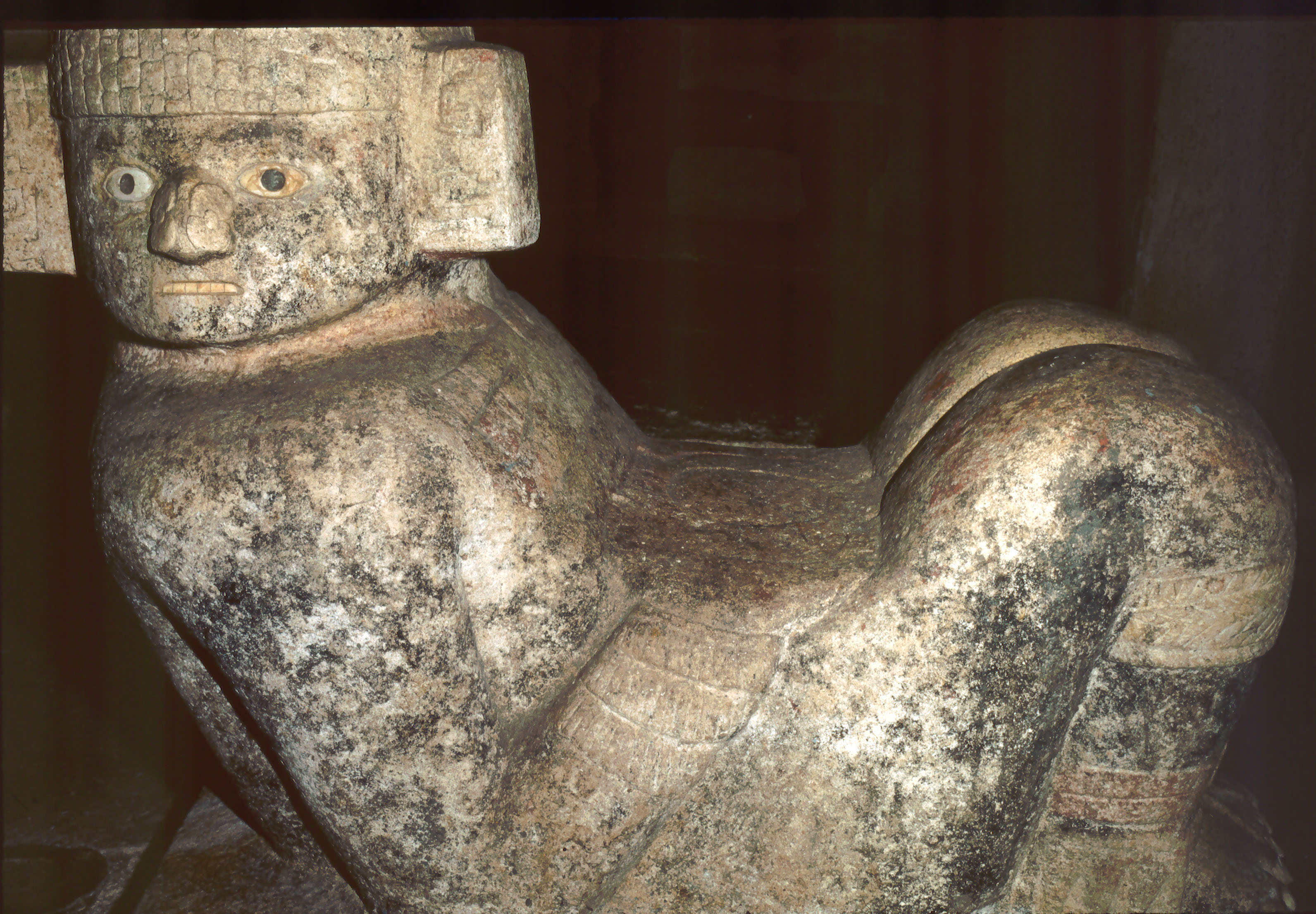 Chichen Itza, Yucatan, Mexico: Castillo (Kukulcan pyramid)temple of substructre, Chac Mool.